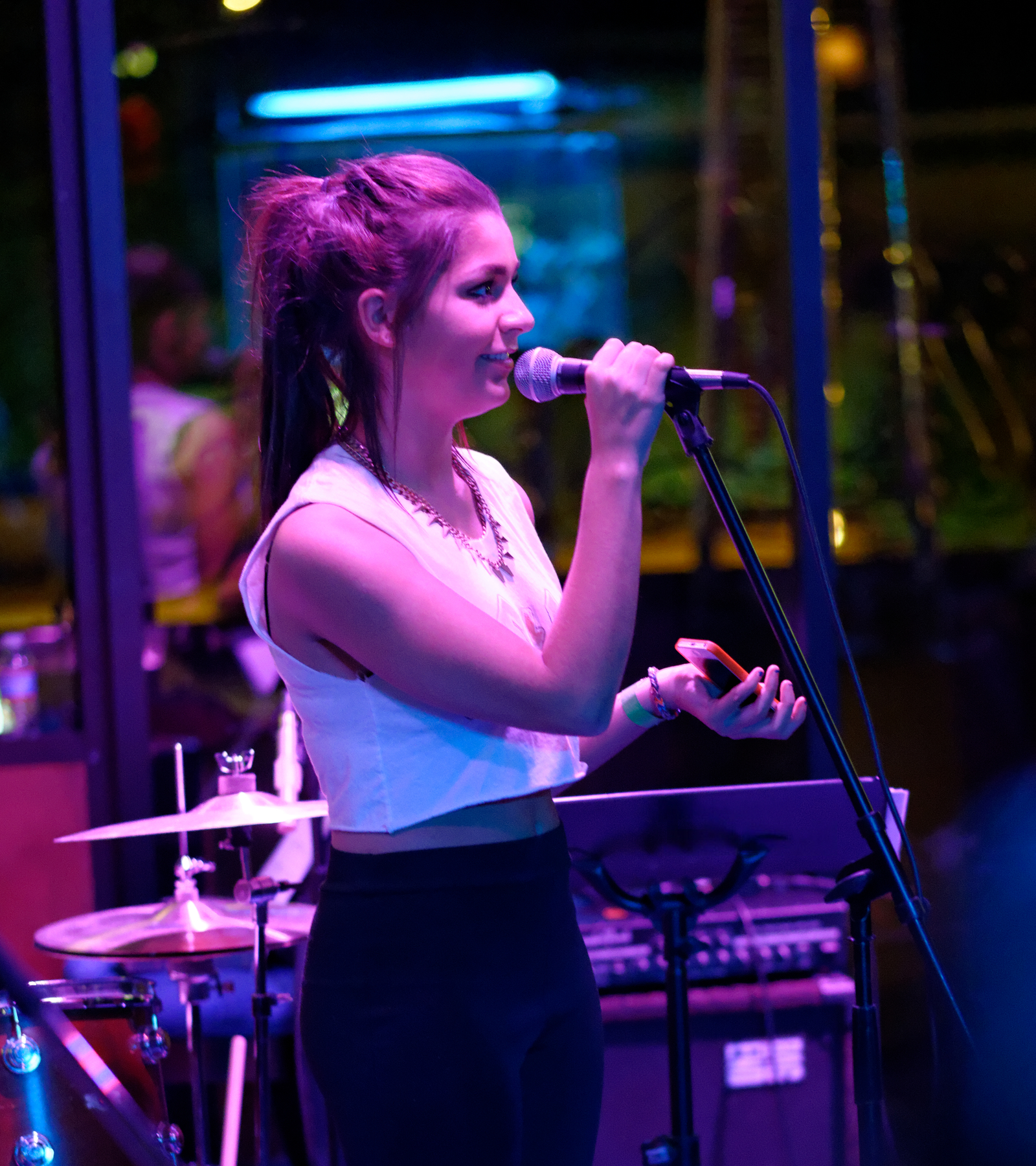 Watermark Music Showcase at Watermark Restaurant & W2O Rooftop Lounge in Ventura CA on January 16th, 2014. The showcase featured performances by Laura Rizzotto, Caitlin Eadie, Lola Delon, Noelle Bean, New Hollow, and special guest performances by Colbie Caillat and Justin Young. The event was hosted by YouTube star Andrea Russett.